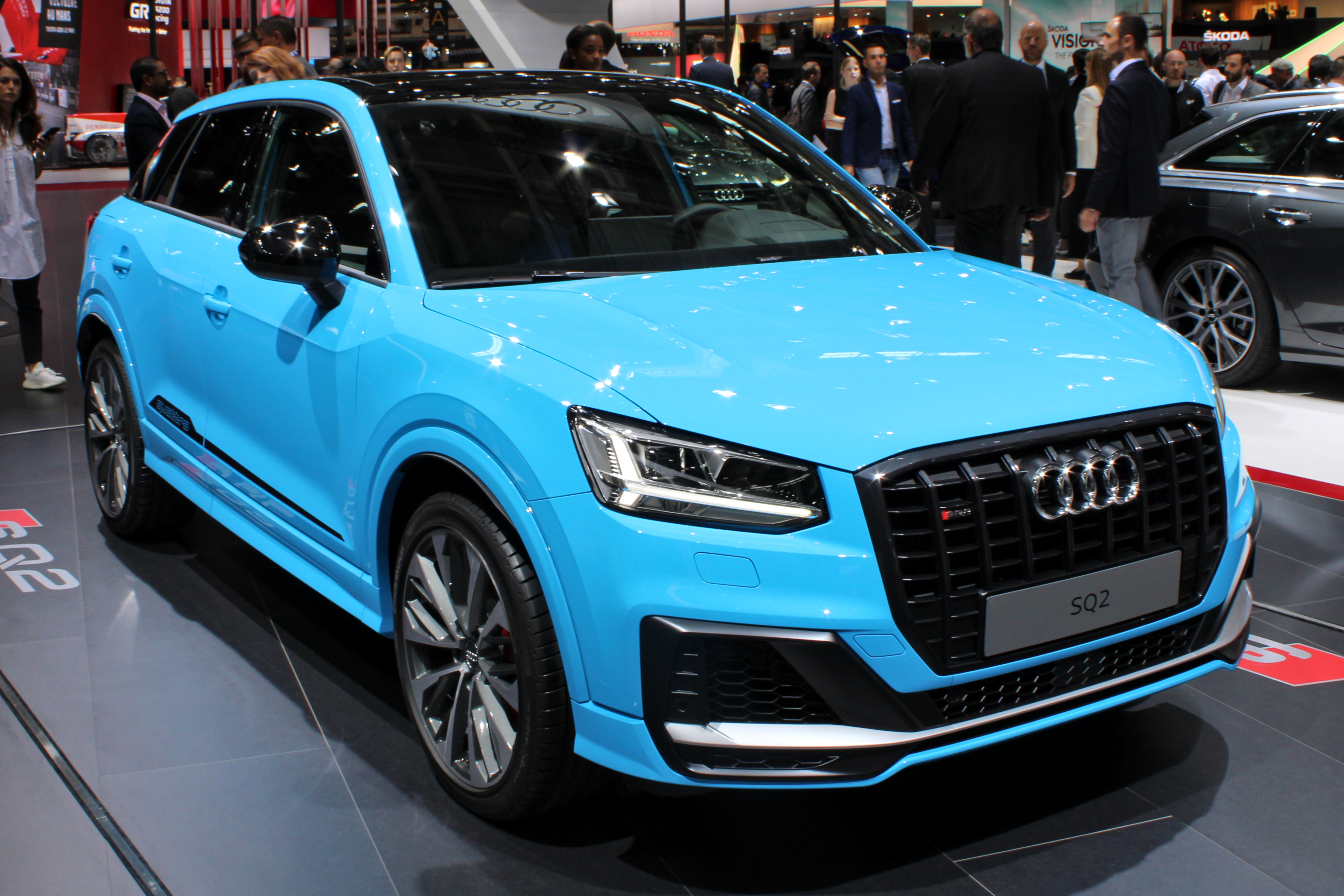 Audi SQ2 at Paris Motor Show 2018